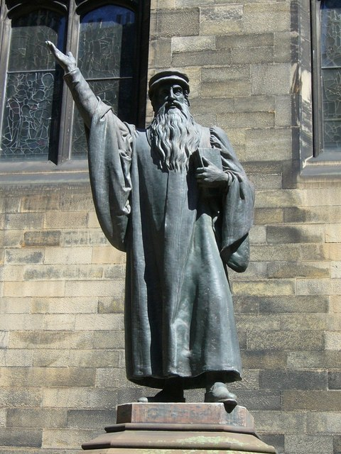 The statue of the Scottish church reformer, John Knox, in the quadrangle of New College.